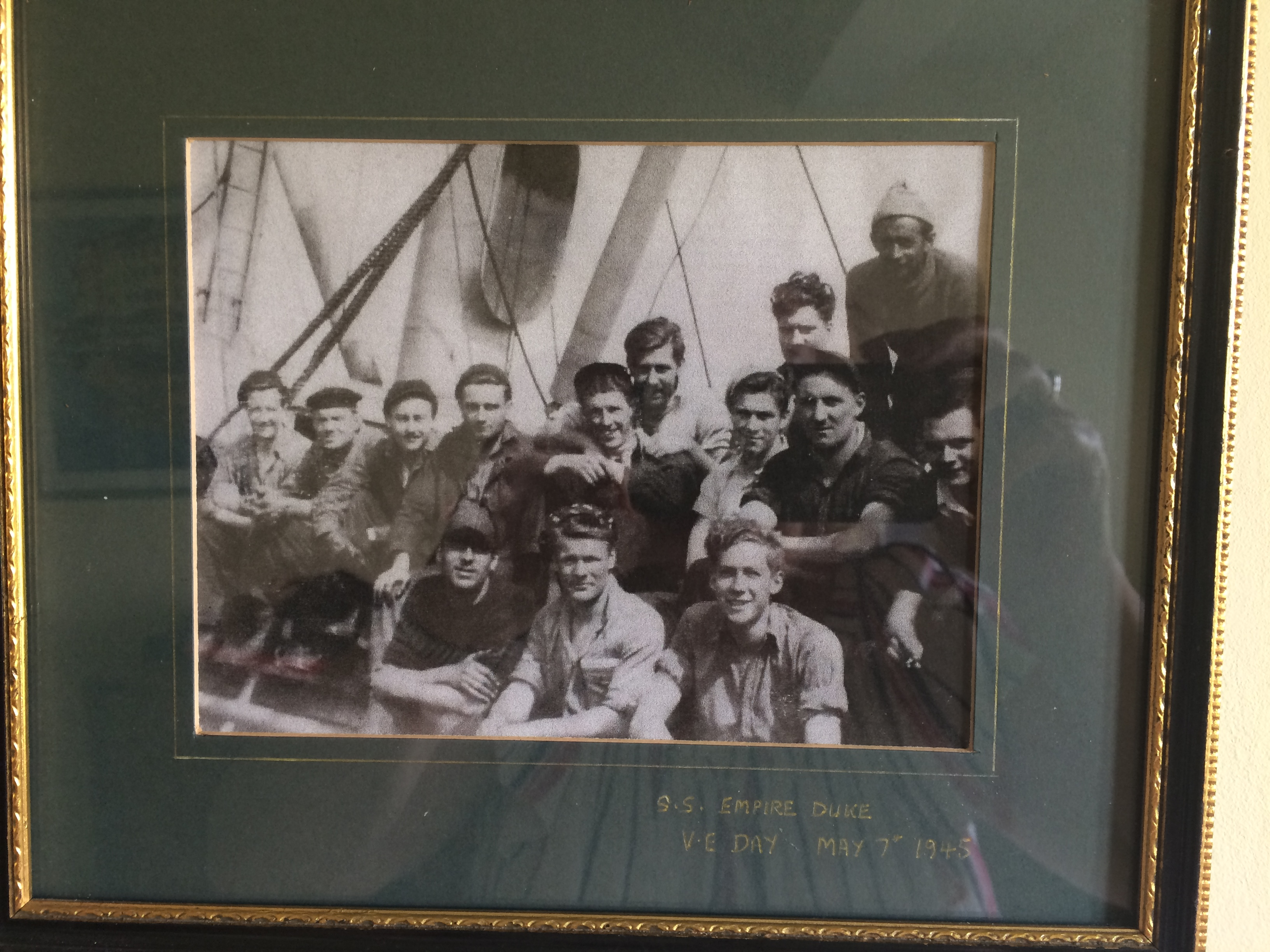 May 7th 1945 VE Day, WWW2. Merchant Navy. Deckhand John Dunphy bottom right.